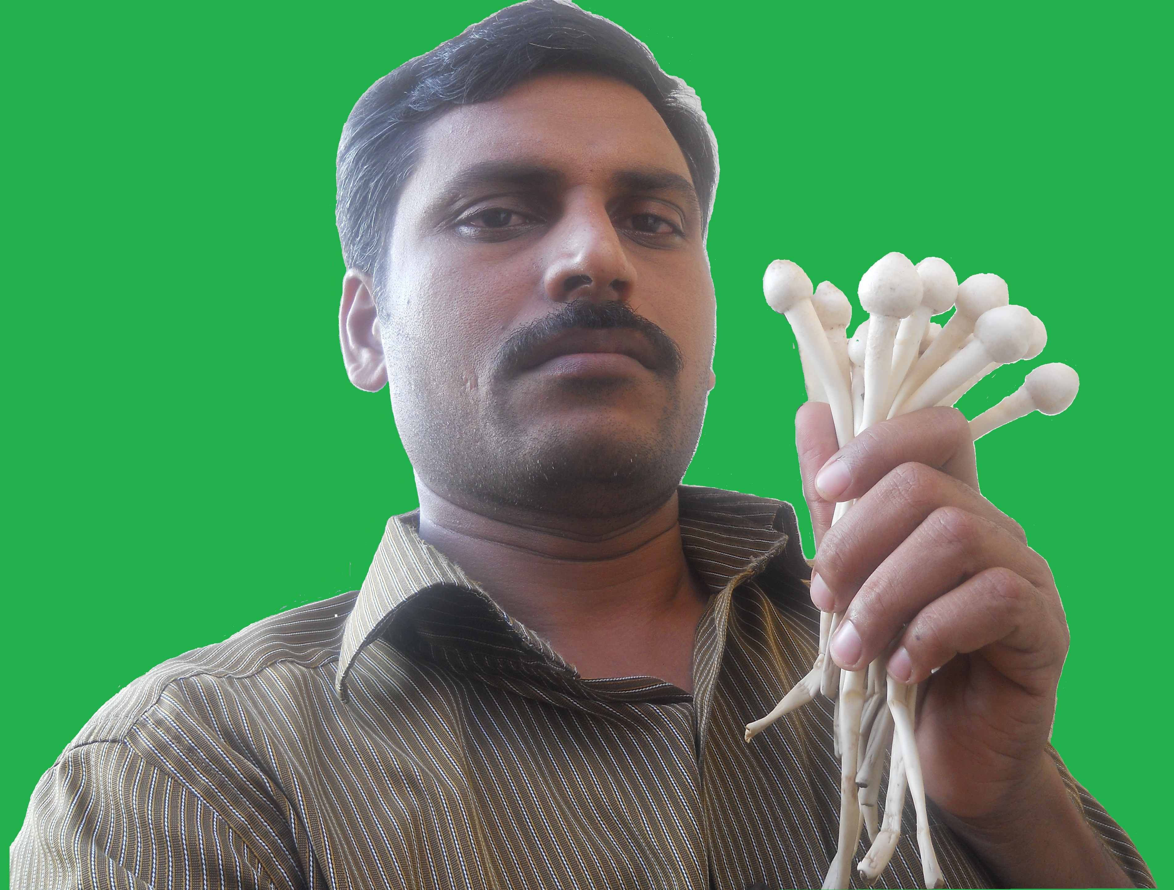 Natural Edible mushroom at Vinjamoor, Nellore (dt), A.P. India.